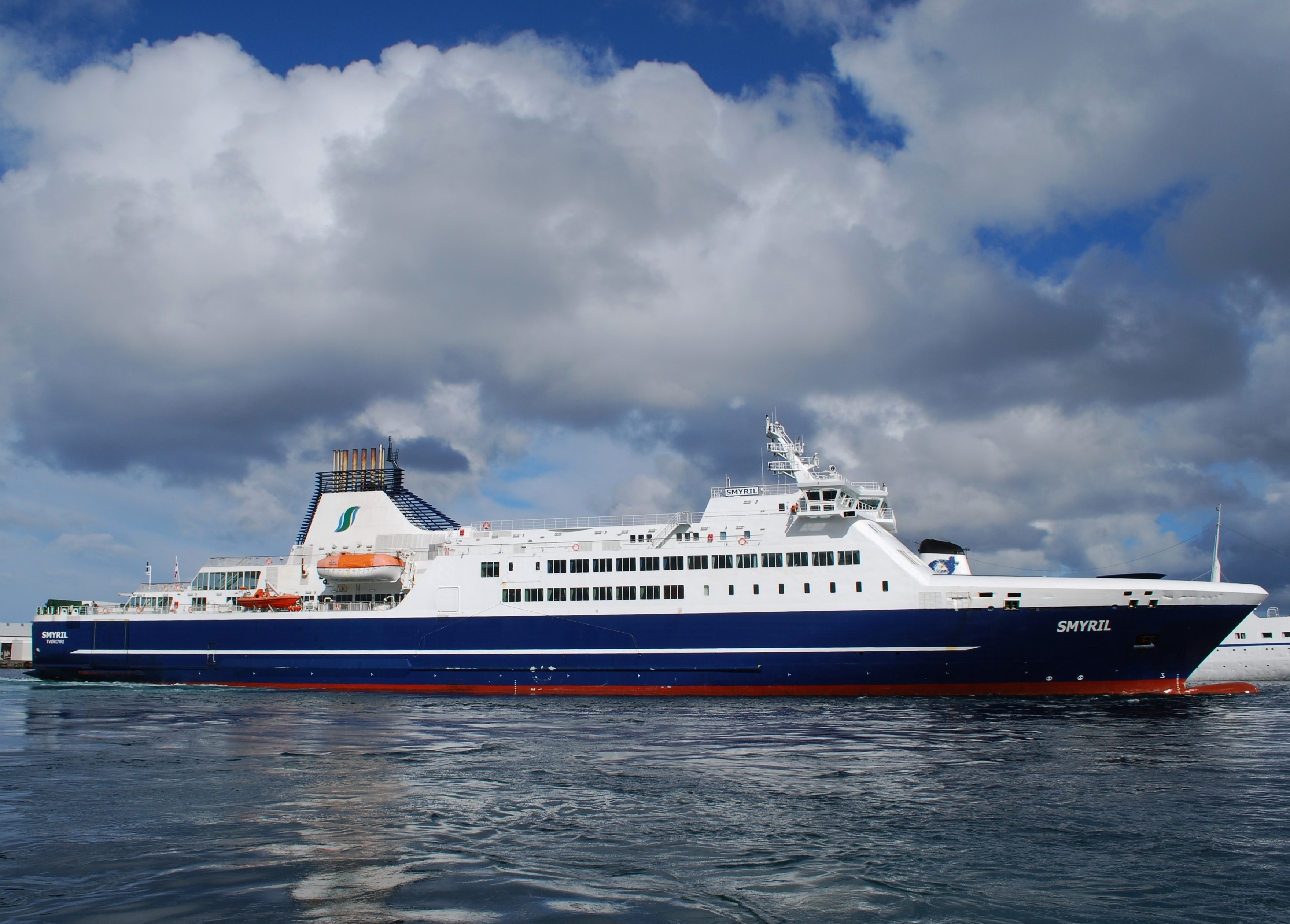 M/F Smyril is the largest domestic ferry of the Faroe Islands. The 5th Smyril arrived on 15 October 2005 in Tvøroyri